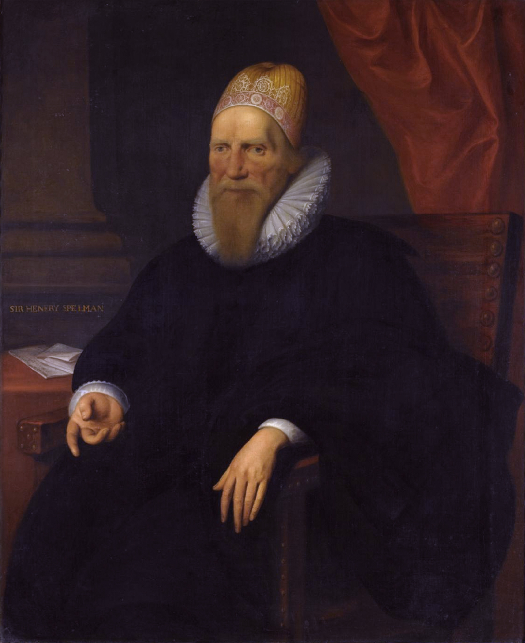 Henry Spelman (c.1564-1641) inscribed centre left: SIR HENRY SPELMAN oil on canvas 126.5 by 103.5 cm